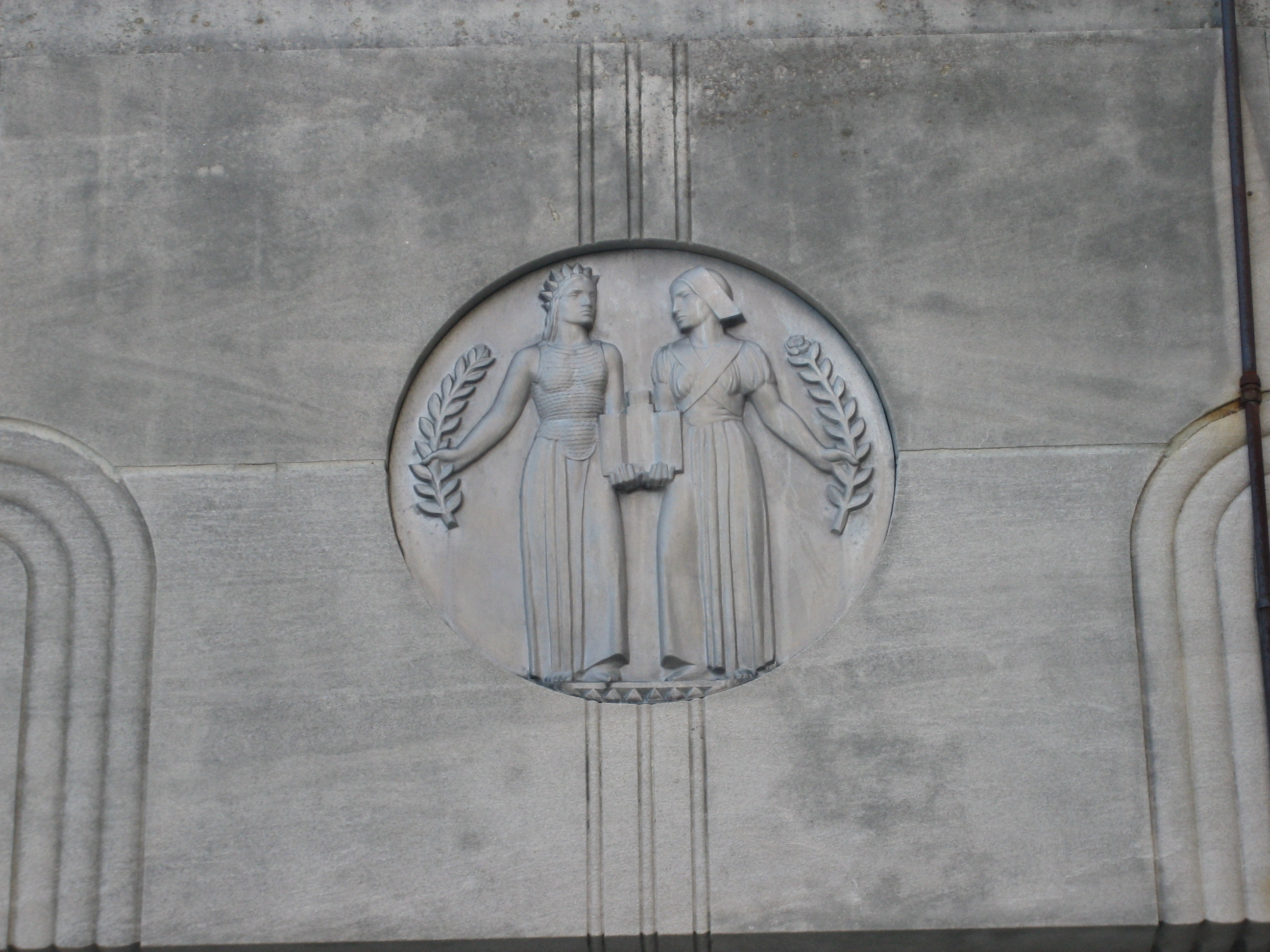 New Orleans after Hurricane Katrina: Architectural detail showing art-deco relief of women representing the United States of America and the State of Louisiana Charity Hospital on Tulane Avenue. It has been announced that due to severe damage to the building, the hospital will not reopen, and the building is expected to be demolished.